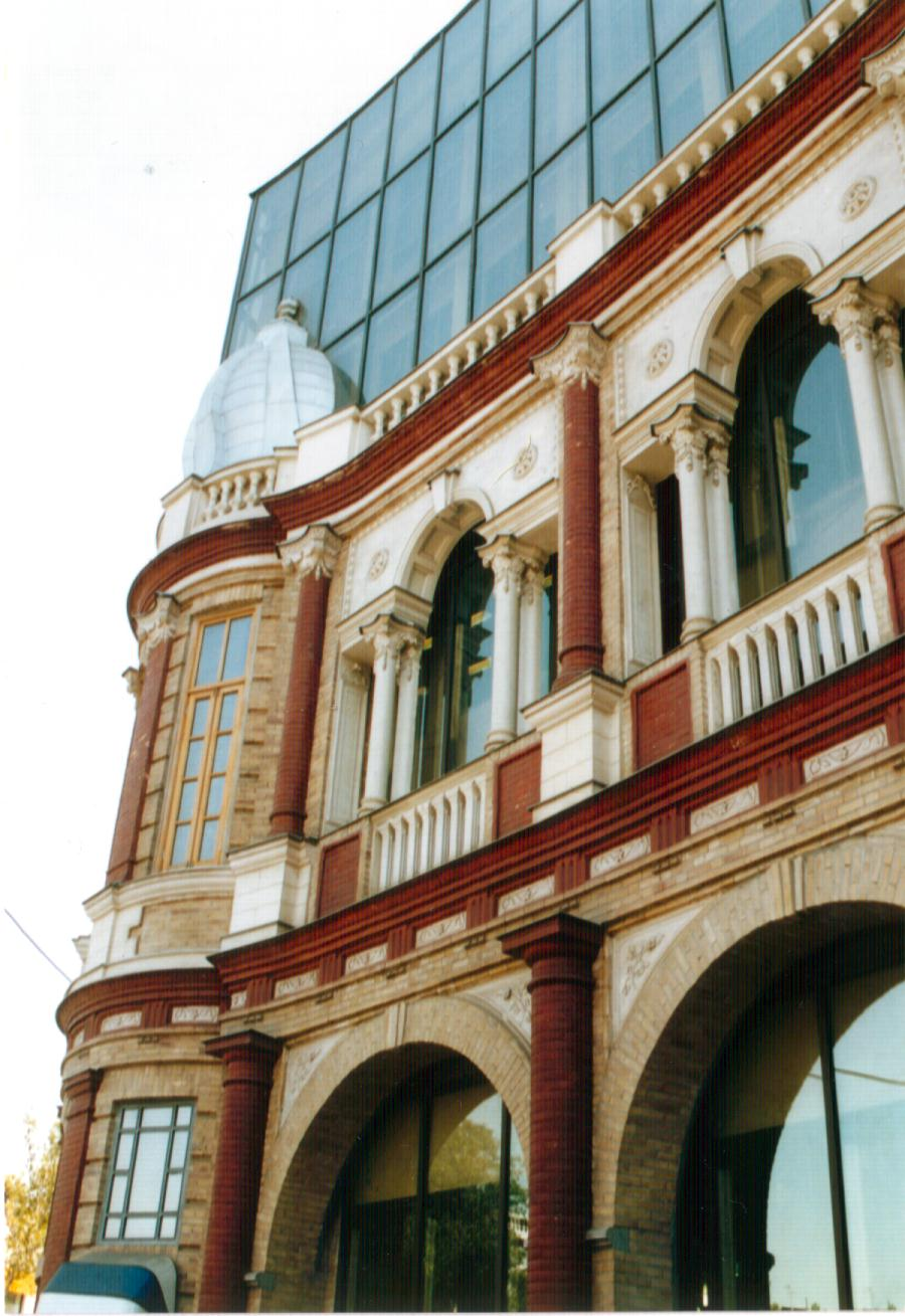 Hasanabad Square in downtown Tehran, picture by Mani Parsa, 2004.